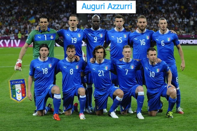 Congratulations to Italian national team for reaching the final Ero 2012